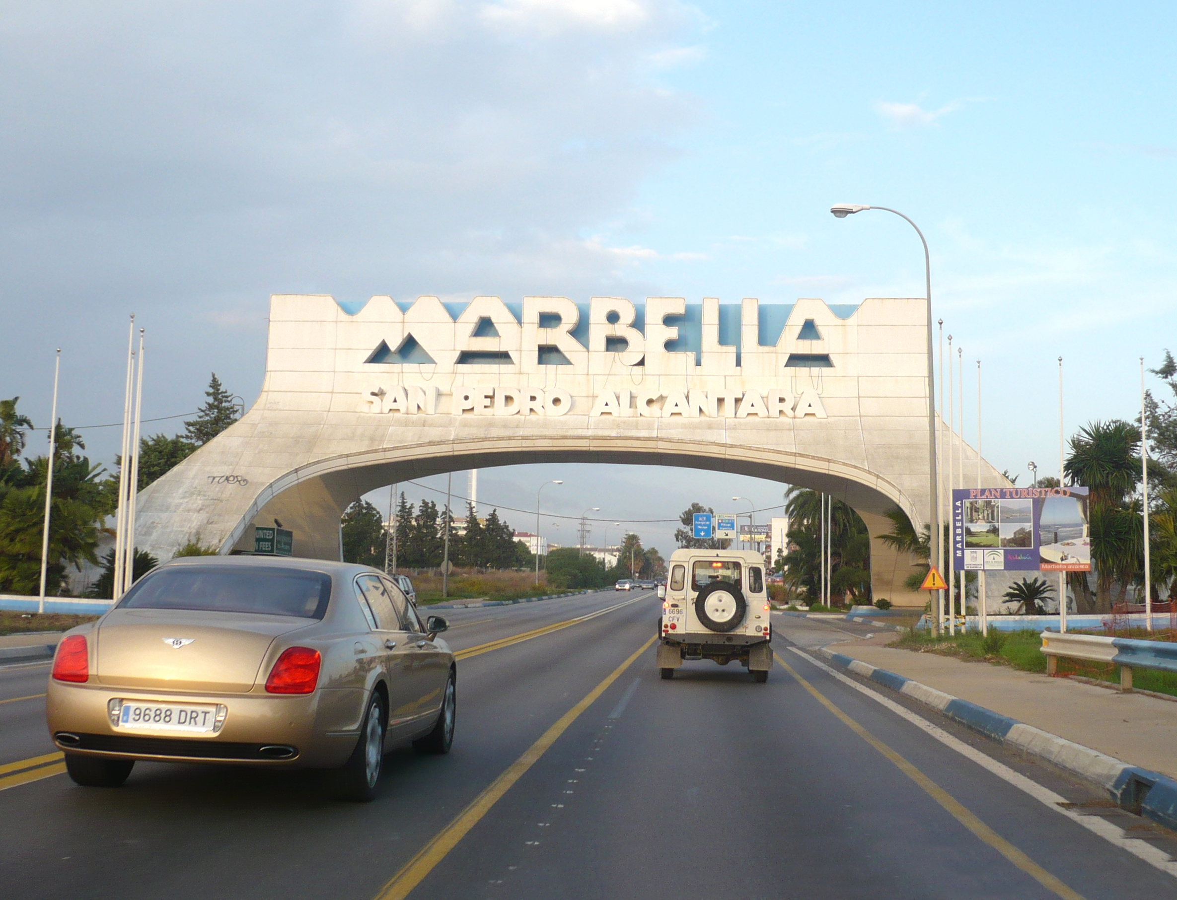 Arch over the N-340 in Marbella, Málaga, Spain